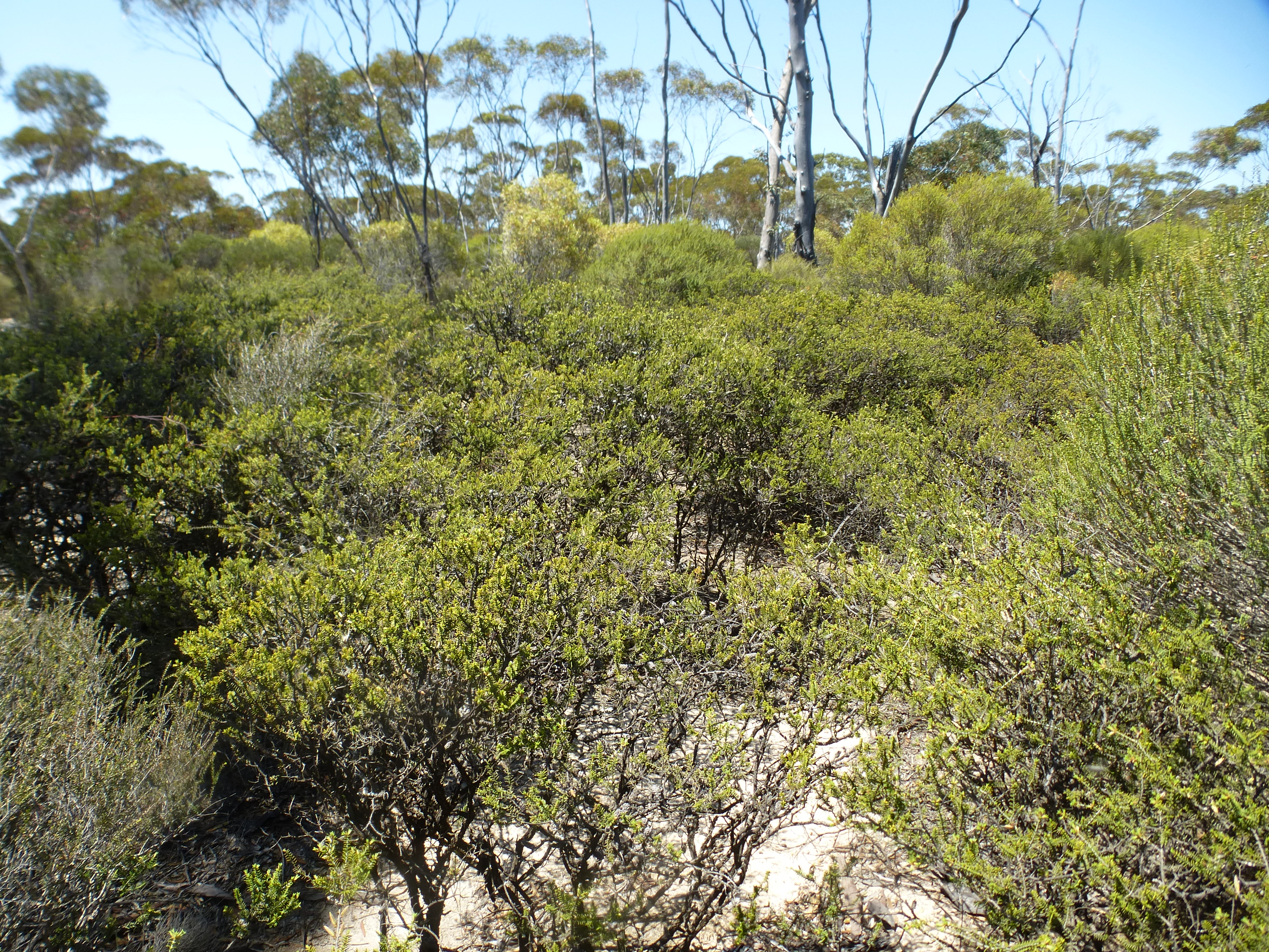 Melaleuca adnata 41 km NE Pingrup